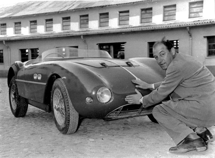 Aurelio Lampredi was a Ferrari engine designer, who also designed this body in the early spring of 1953, possibly with the help of people working for Carrozzeria Autodromo. This is from a photo shoot in Maranello where Ferrari has their factory, and pictures are by Rodolfo Mailander. One source says it is April 28–29 1953, and that this is the 0302TF,[1] ... others has this as 0428M [2] It has a wide windshield, but at Monza on 29 June 1956, it only had a tiny driver windshield. But windshields can be replaced. Since it has indicator lights, it may not be 0272M. It may be 0264M, but that one had slightly different headlamps